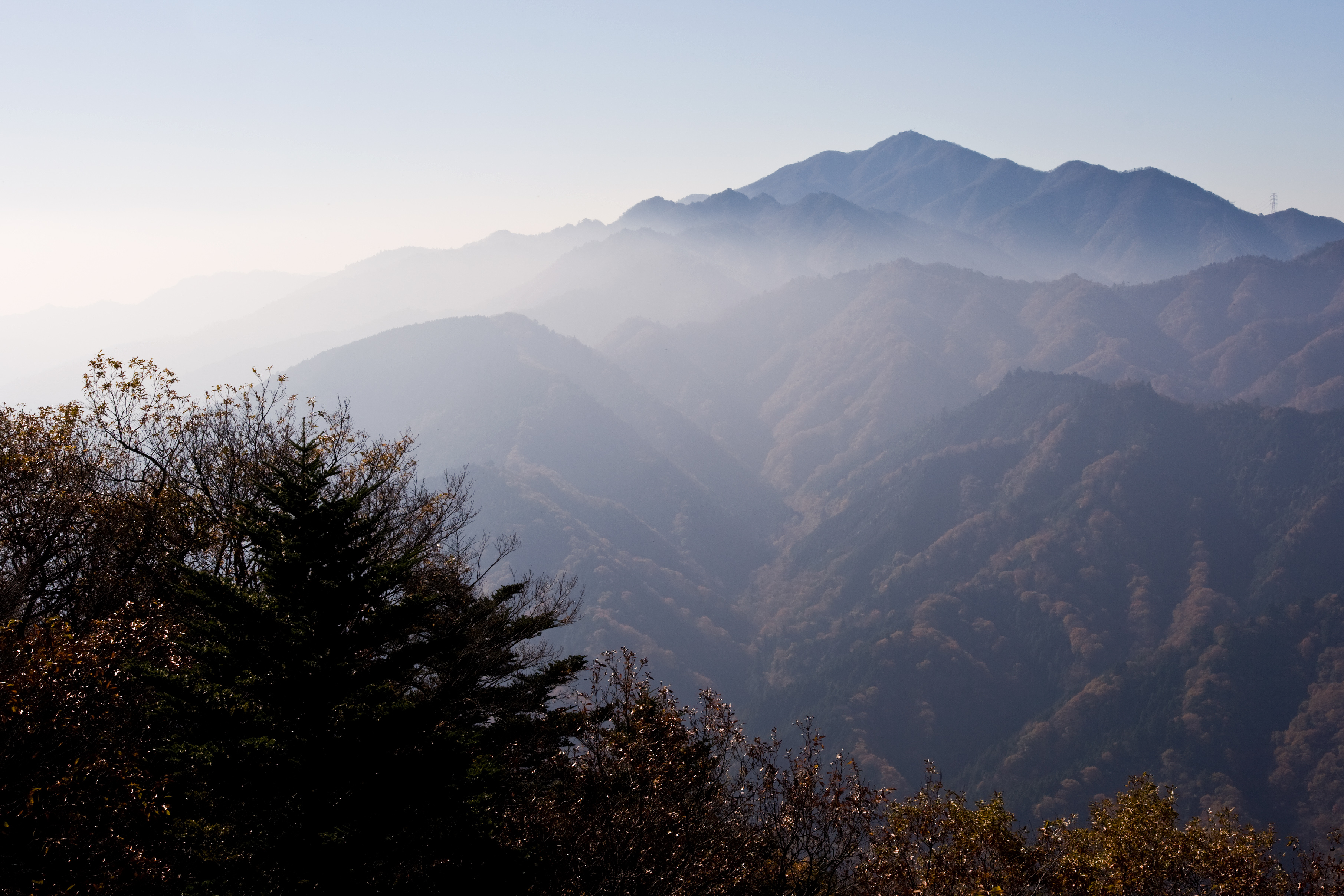 Mt.Oyama as seen from Mt.Bukka, Mts.Tanzawa, Kanagawa Pref., Japan.